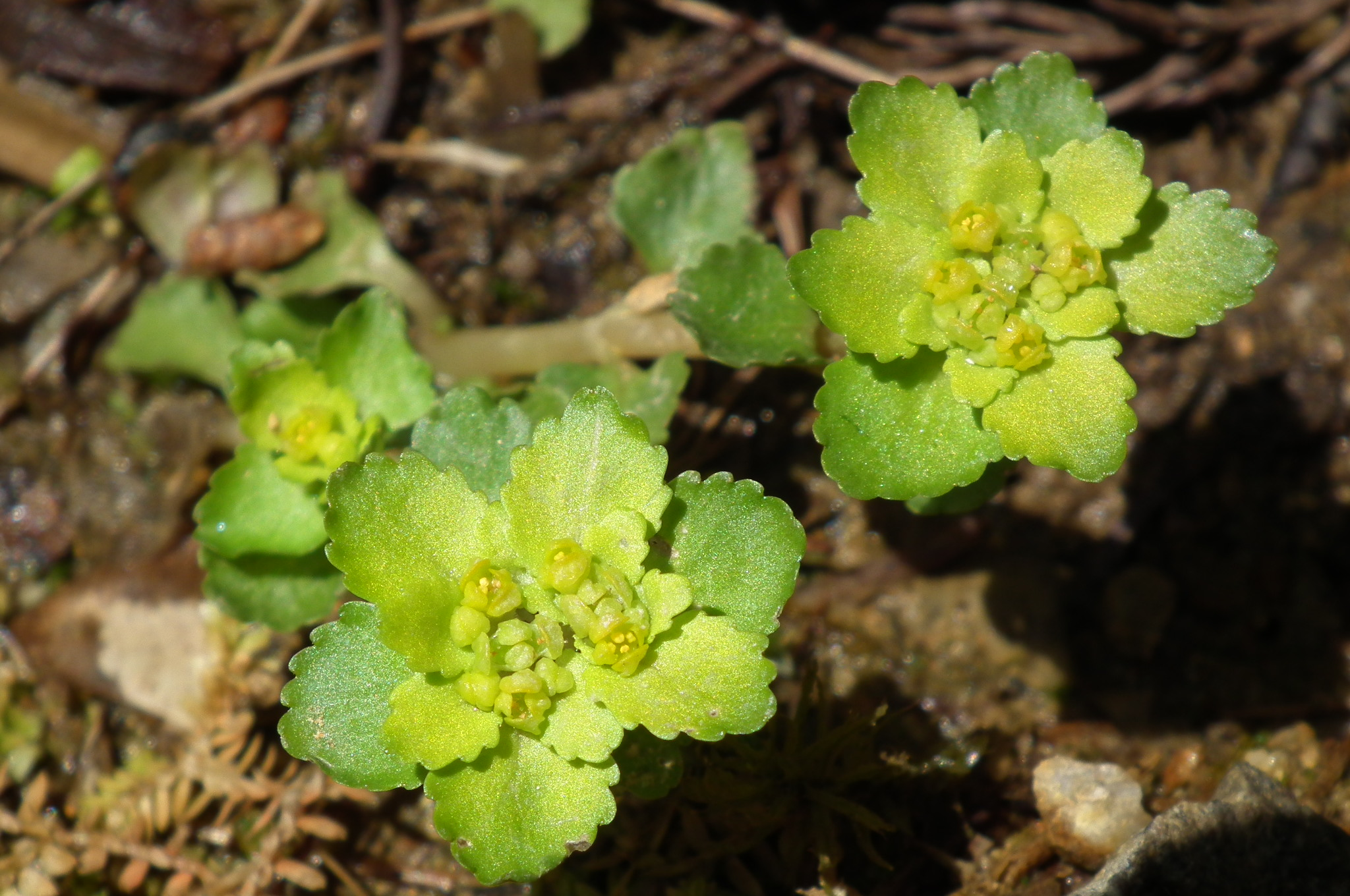 Chrysosplenium grayanum